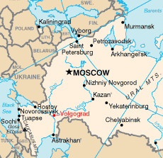 Map of European Russia showing the location of Volgograd